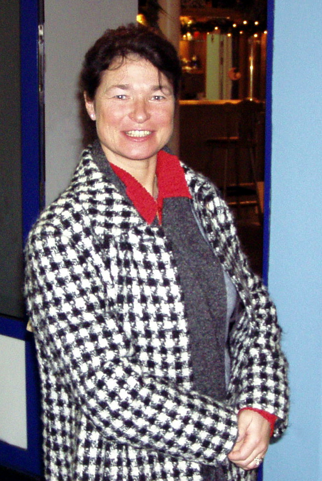 Anett Pötzsch at the German Nationals 2006. Photo was taken with her kind permission.